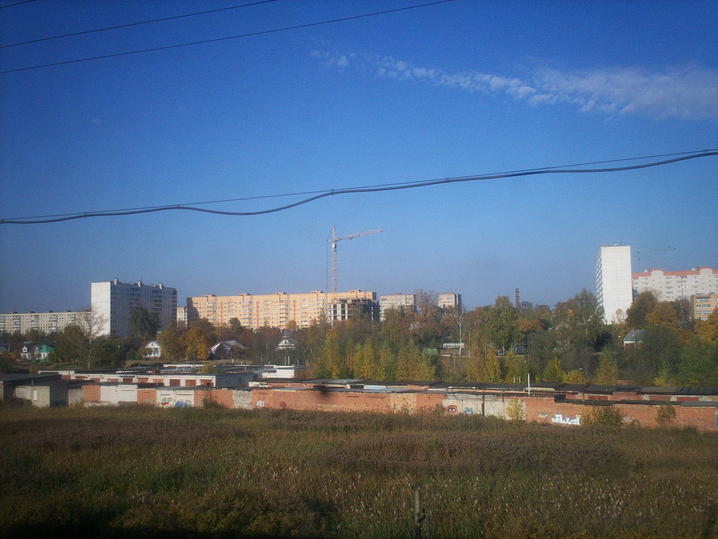 A view of Solnechnogorsk, Moscow Oblast, Russia, from a train.